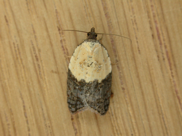 Acleris variegana ([Denis & Schiffermüller], 1775), Garden Rose Tortrix, Hellerup, Denmark, 2/3 September 2012